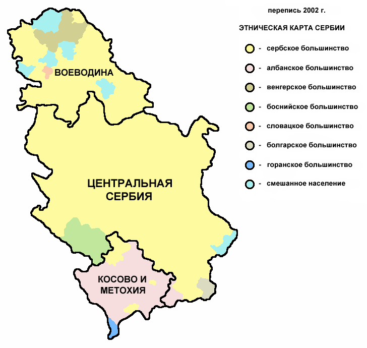 Ethnic map of Serbia and Kosovo (self made) Note: Map is based on the 2002 census data for Central Serbia and Vojvodina and 1991 census data for Kosovo.